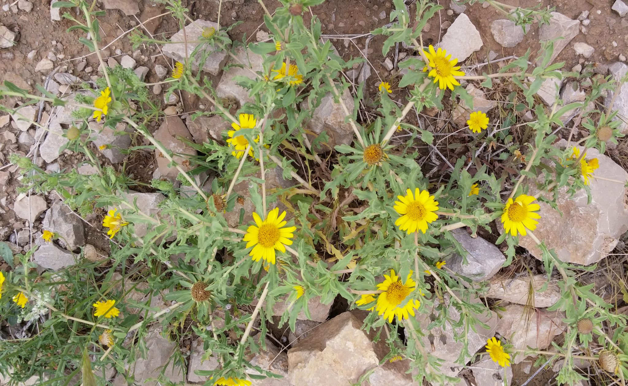 Asteriscus graveolens observed in Israel